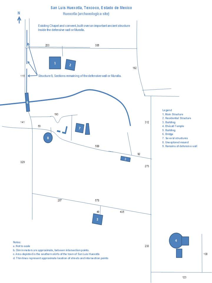 Template:Huexotla, Site plan and structure approximate location